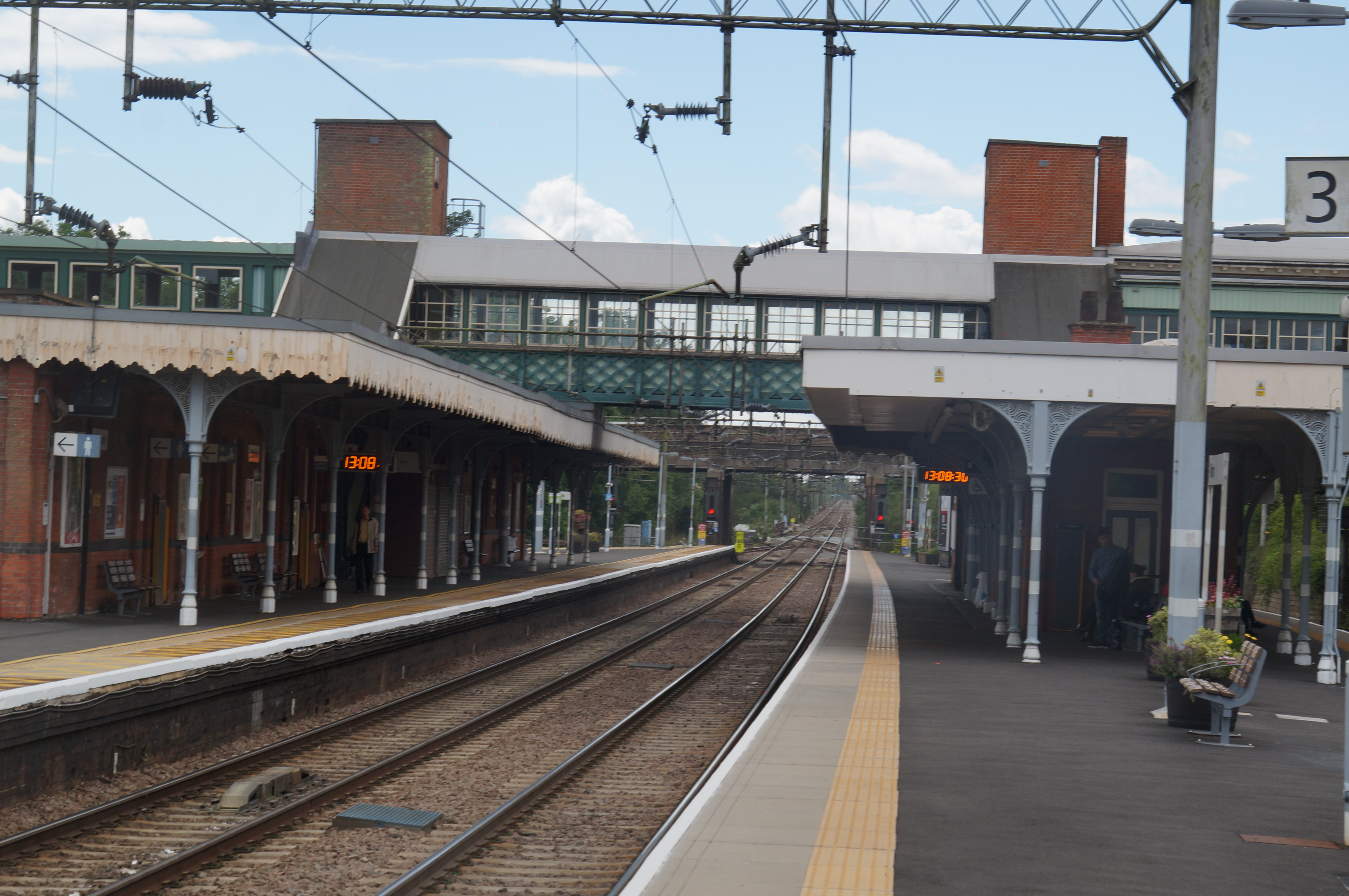 Witham railway station, as seen from Platform 3 looking towards London.